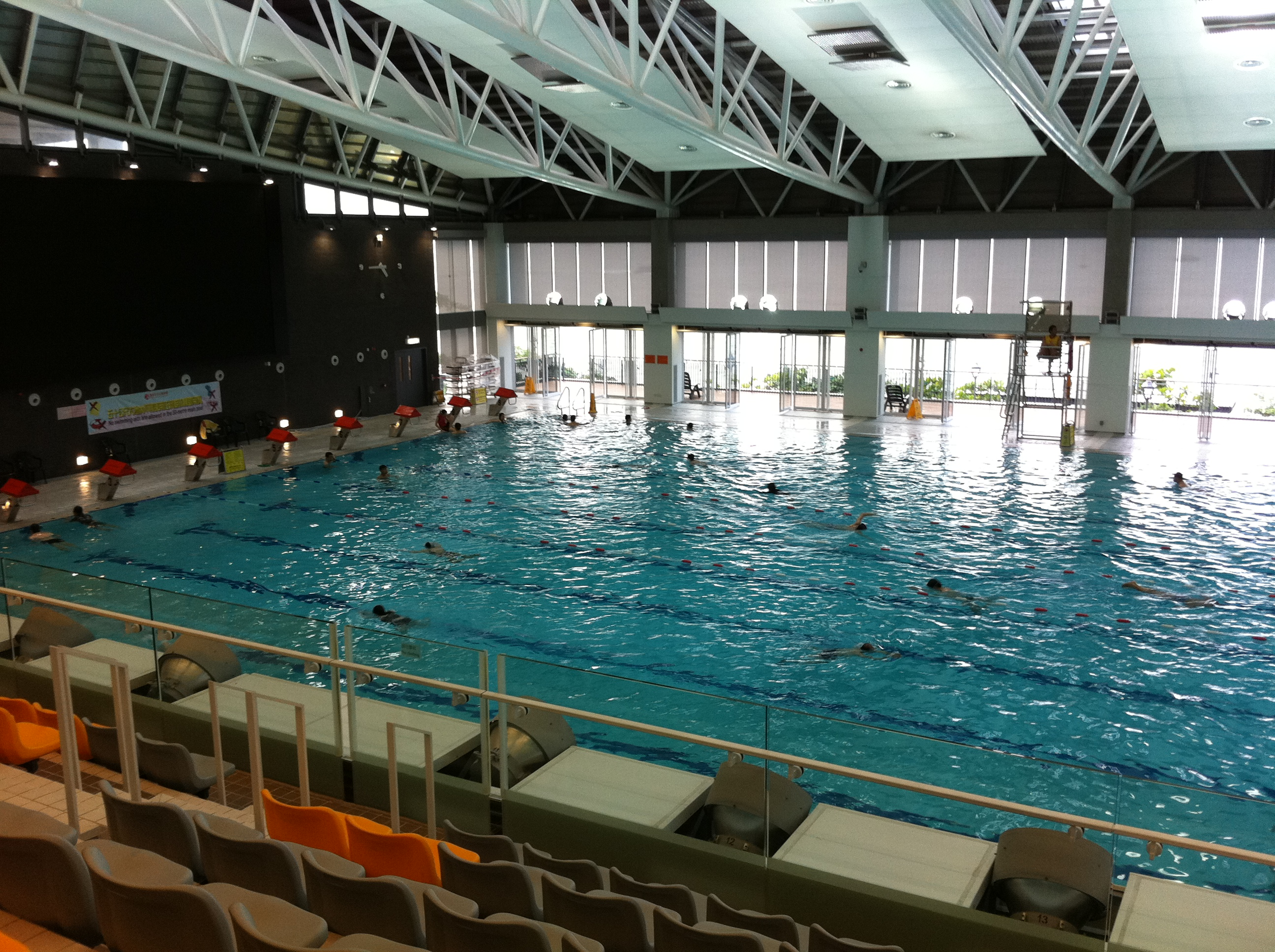 香港島 中山紀念公園游泳池, Sun Yat Sen Memorial Park Swimming Pool, Sai Ying Pun, Hong Kong